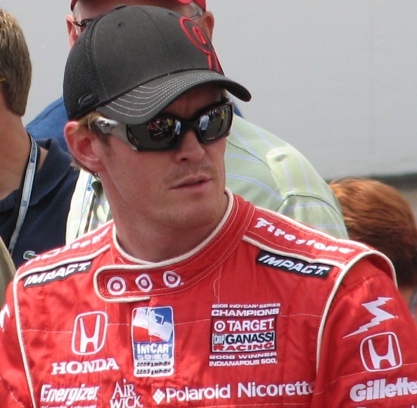 Scott Dixon at the Indianapolis Motor Speedway for Miller Lite Carb day for the 2009 Indianapolis 500.